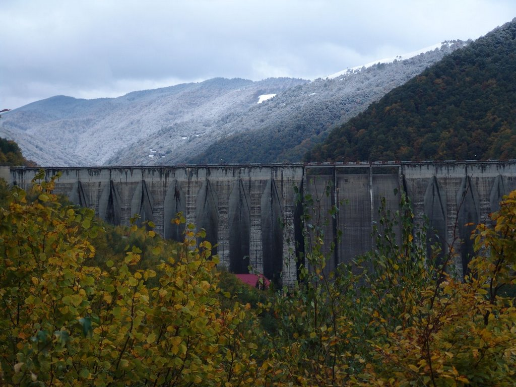 Gura Raului dam, after a day with a lot of rain.